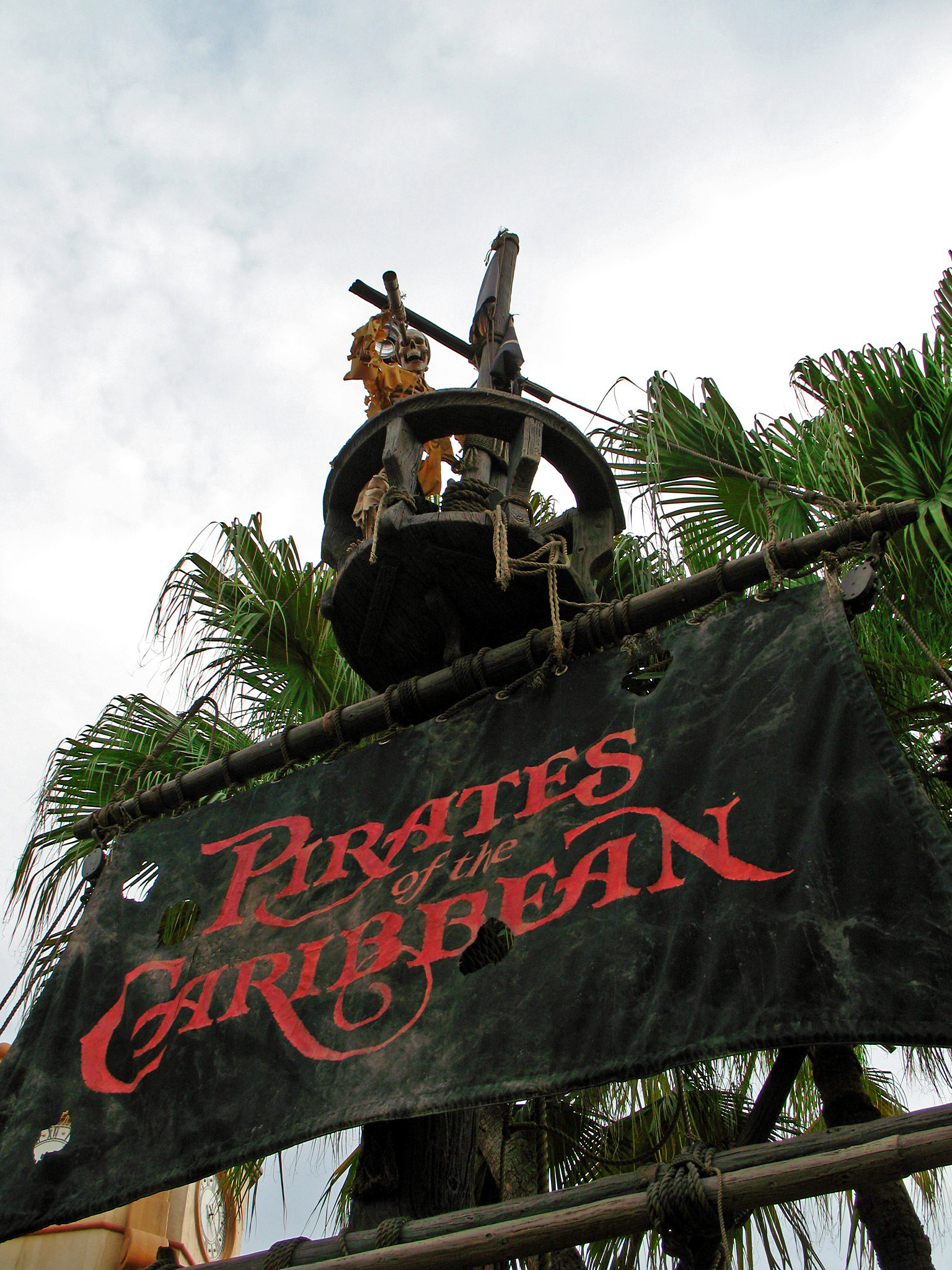 A movie "Pirates of the Caribbean" world entrance (Disneyworld: Magic Kingdom, Florida, USA)